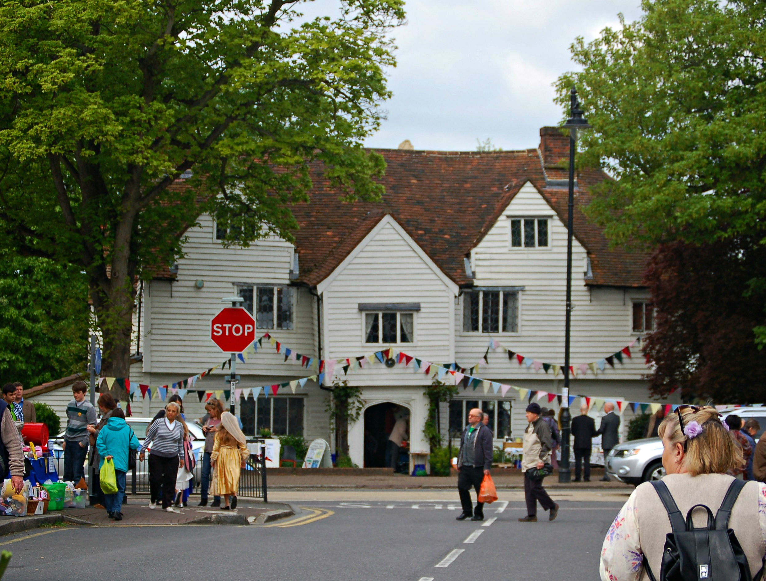 18 May Cheam (2)